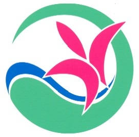 Sakuho Nagano chapter